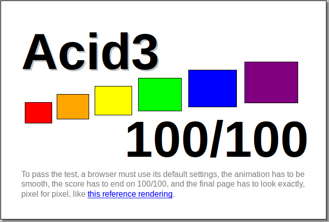 Result of Acid3 test on Firefox 7.0.